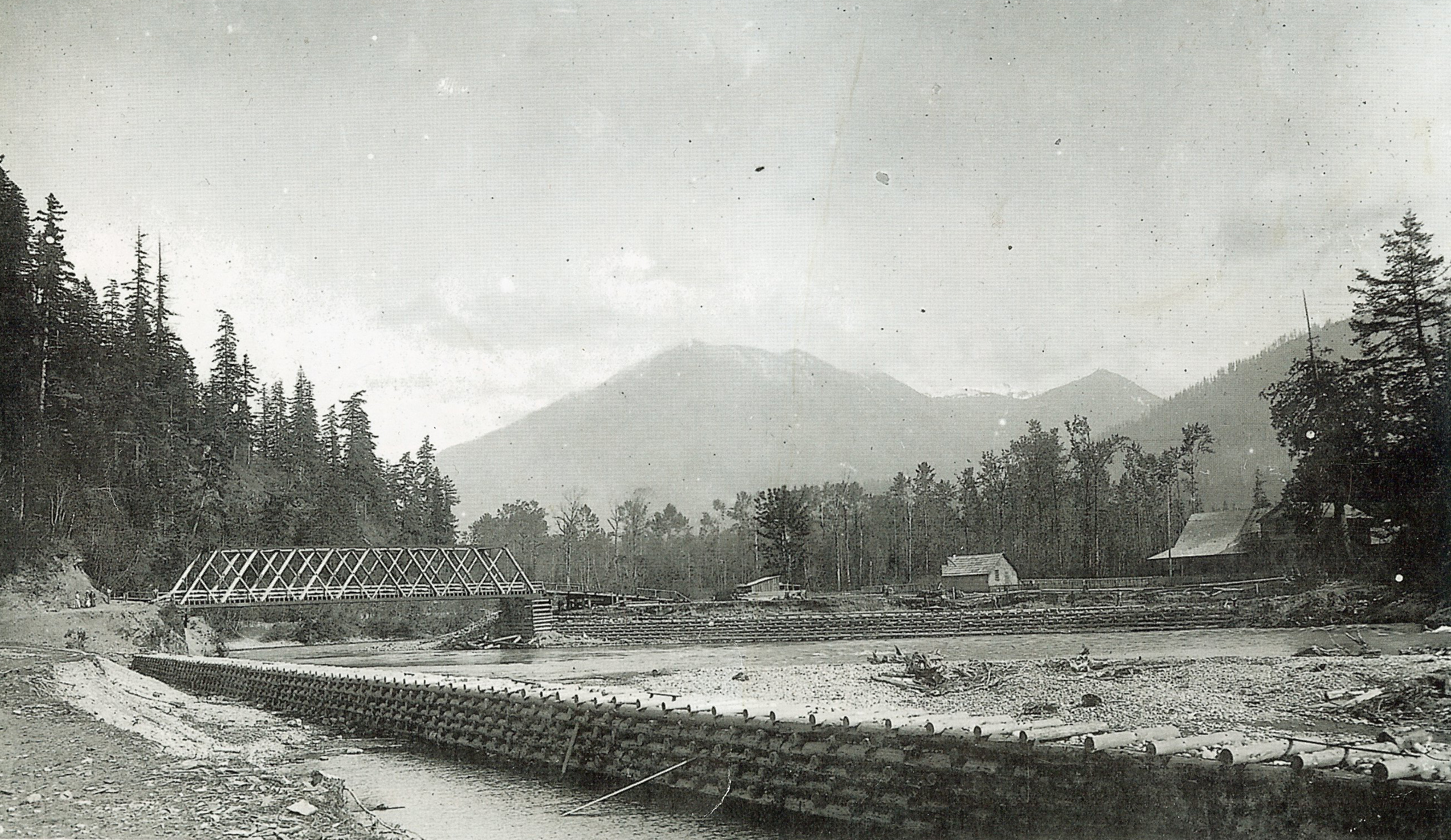 Vedder River near Chilliwack, BC